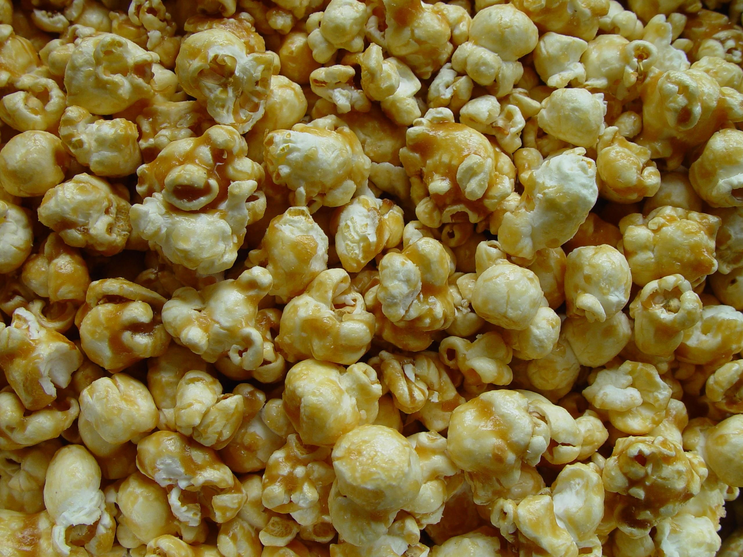 Image title: Candied popcorn bliss bombs Image from Public domain images website